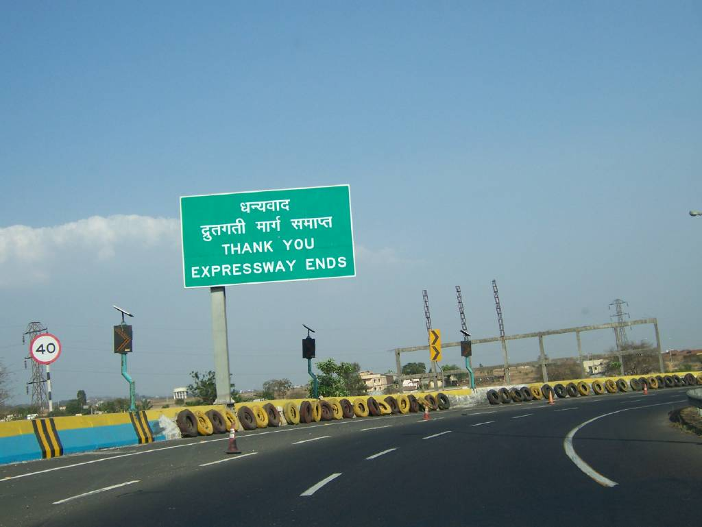 This is an ill-designed overhead turn, 90 degrees in hard right with a radius which does not support an unbanked turn at even 30kmph without the best of cars squealing and hitting the tyre fenders placed there along the wall. I have seen a pick-up truck loaded with what looked like fish oil skid, and spill some oil. Within minutes, even before we could stop traffic, what looked like a dozen vehicles spun and bumped all over the place.